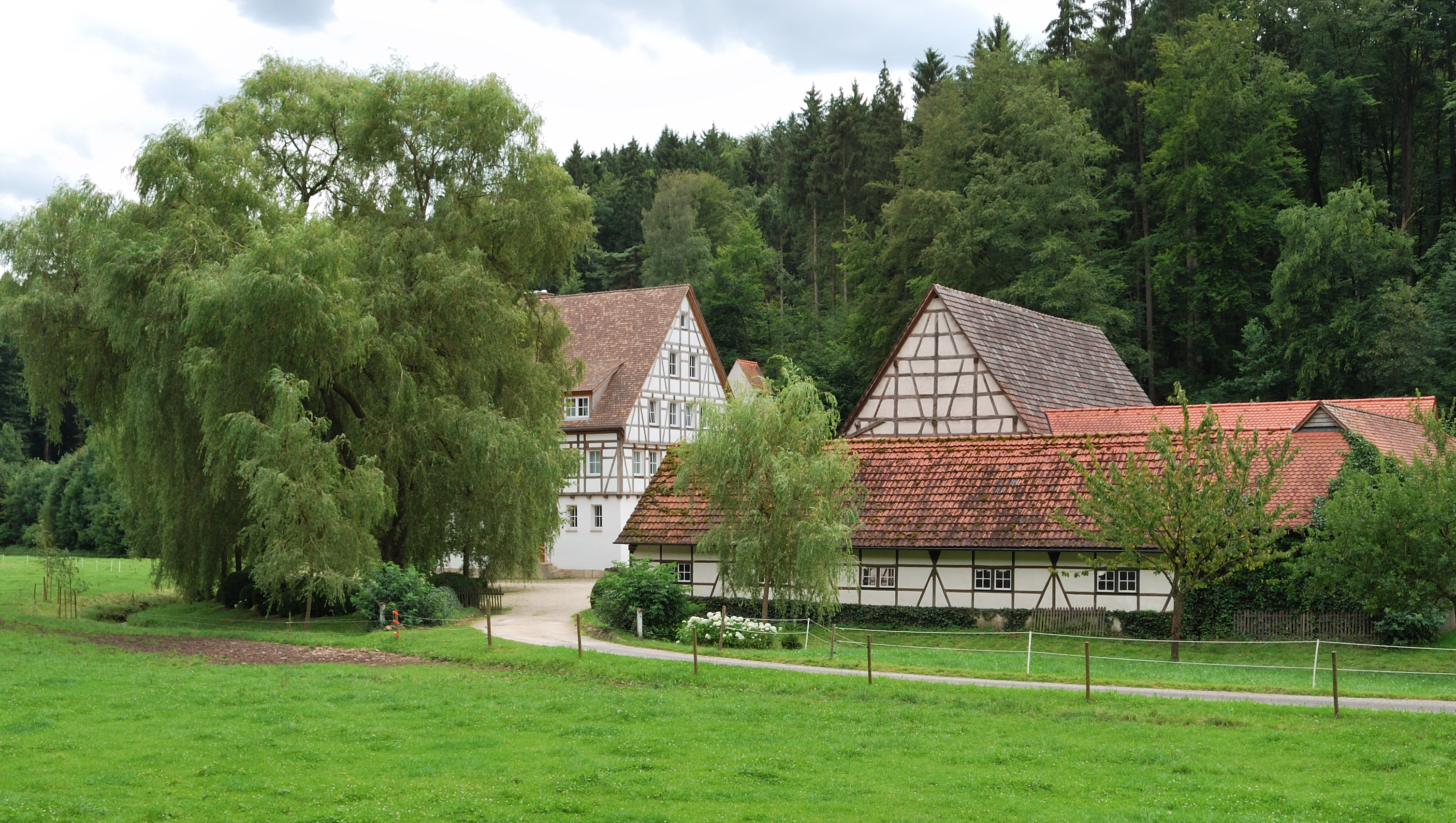 Schlechtsmühle (Schlecht-mill, former watermill named after a former owner Schlecht) in Siebenmühlental (Seven-mills-valley), Baden-Württemberg, Germany.